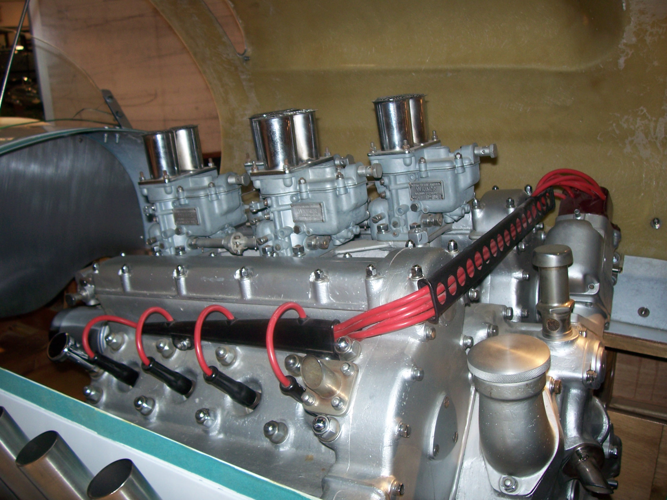 Engine Pegaso Z-102 2.8 l four double carburators into canoa designed for Wifredo Ricart